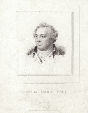 Portrait of Francis Hardy (1751–1812), Irish politician.